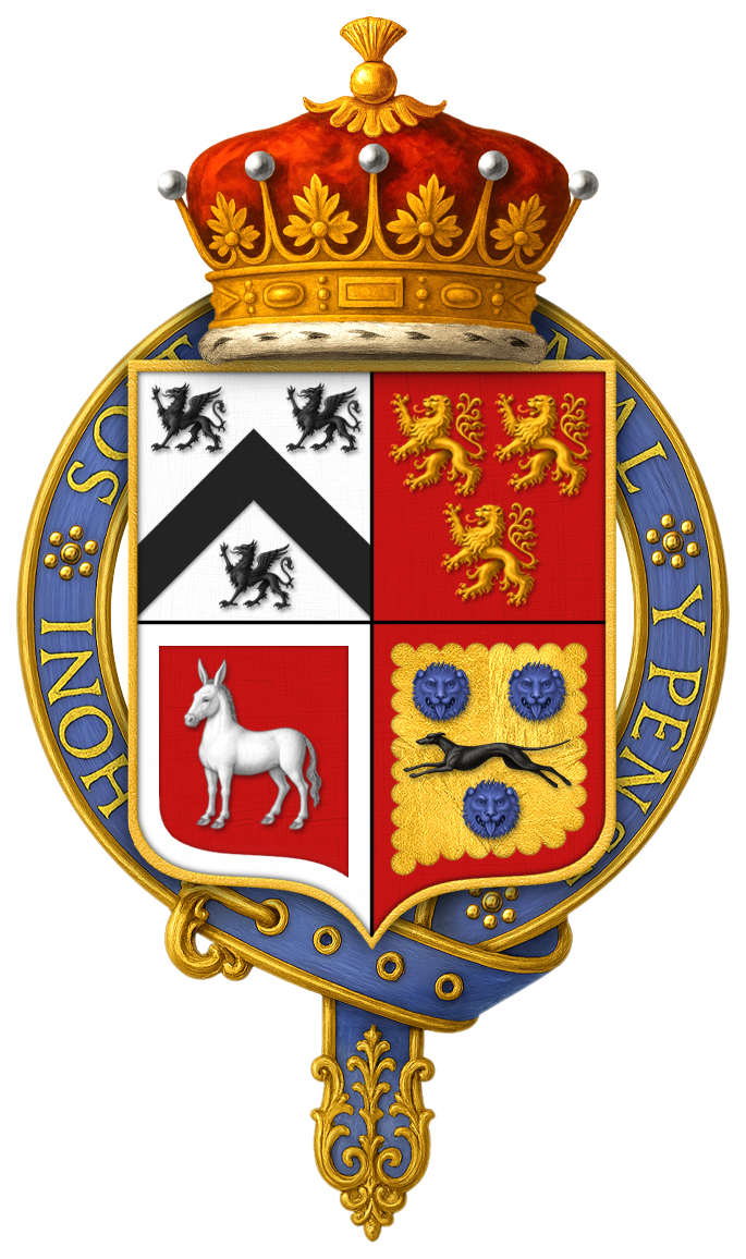 Coat of arms of Daniel Finch, 8th Earl of Winchilsea, KG, PC. Quarterly of 4: 1:Finch 2:Gules, three lions rampant or (FitzHerbert (per Collins, Arthur, The Peerage of England, 3rd Edition, 1768[1])) FitzHerbert of Tissington, Ashbourne, Derbyshire (cr.1784 FitzHerbert Baronets) (a junior branch of FitzHerbert of Somersal Herbert, Derbyshire, 13th c.) (Debrett's Peerage, 1968, pp.305-6). According to Burke's Peerage, 1934 (re:Finch, Earl of Winchilsea and Nottingham), quoting Sir William Dugdale, "The Finch family is probably descended from Henry FitzHerbert, Chamberlain of King Henry I and ancestor of the Herbert Earls of Pembroke. They are thought to have changed their name to Finch after marriage to an heiress daughter of an earlier Finch family". The Herbert family of Wales, Earls of Pembroke, bear a differenced version.